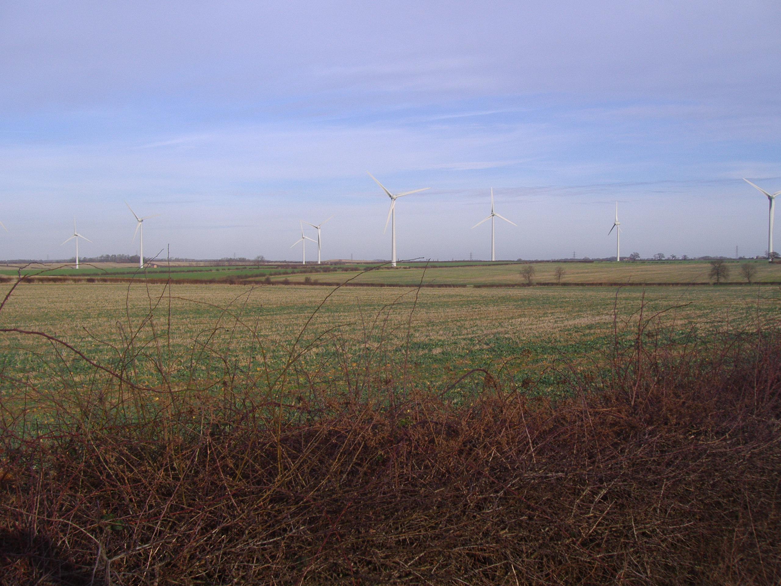 A Digital photograph of Burton Wold Windfarm in the county of Northamptonshire taken on the 22 January 2008 by Stavros1 (talk) 18:48, 22 January 2008 (UTC)